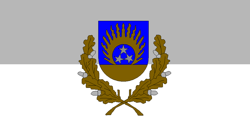 Flag of Ozolnieki Municipality, Latvia.